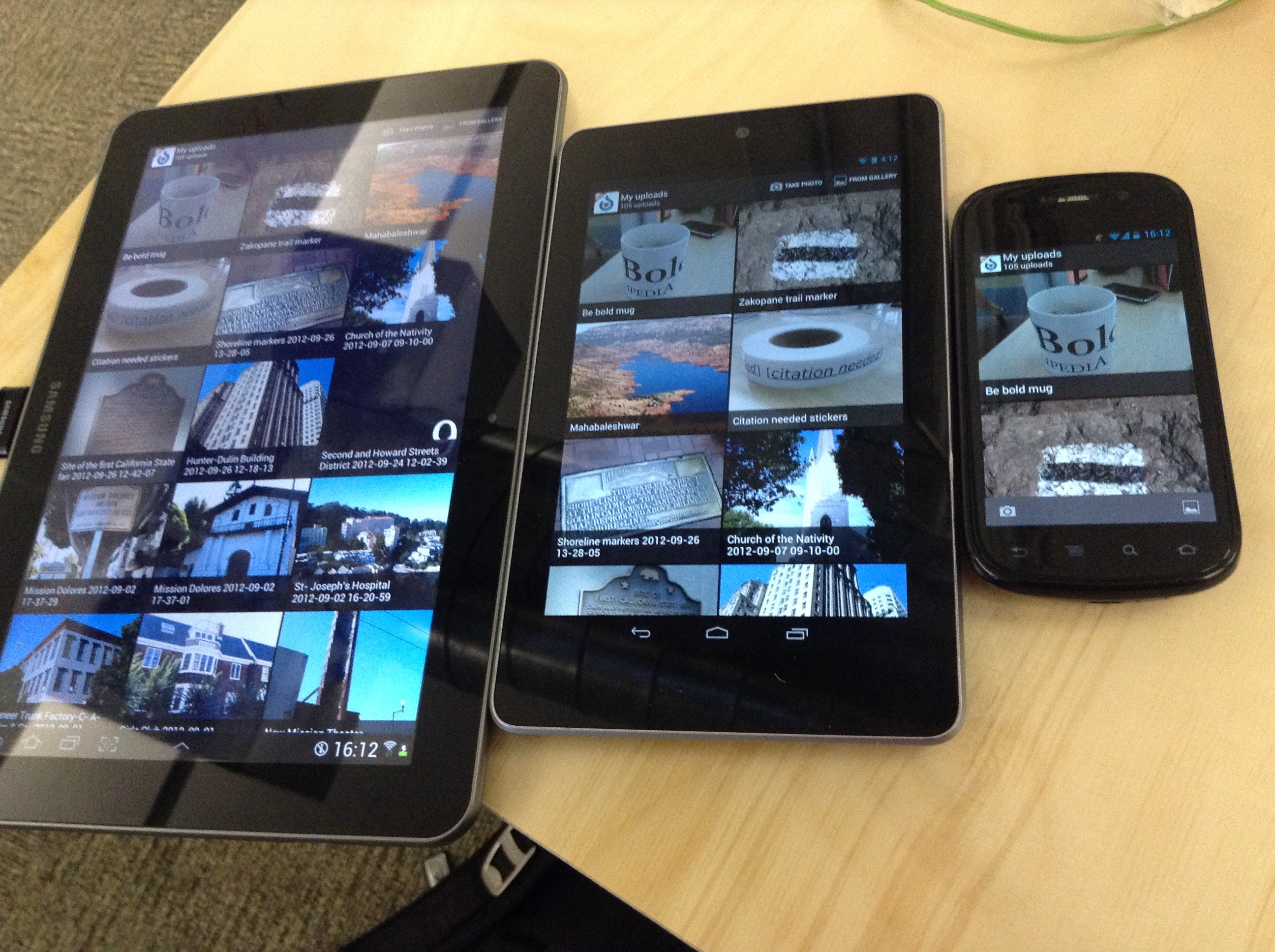 Example of responsive design on Commons Android app